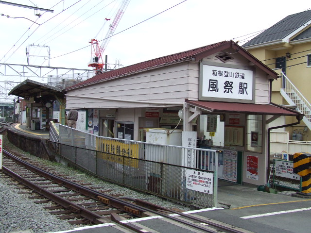 Old building of Kazamatsuri Station,Hakone Tozan Railwey,Japan